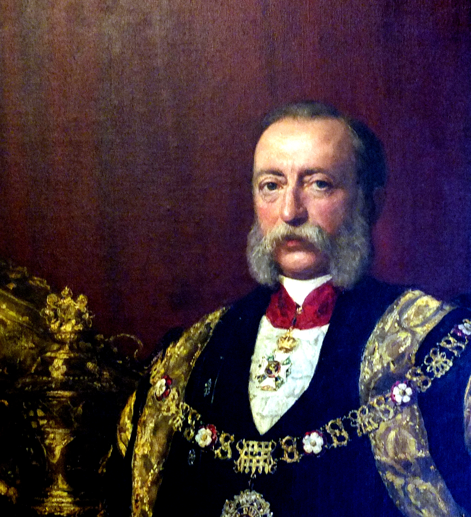 Portrait by John Caller of sir Polydore de Keyser (1888), Lord Mayor of London, in the City Hall of Dendermonde. The dedication reads : Presented to the Lady Mayoress by the inhabitants of the ward of Farrington Without as a mark of their esteem [i]n appreciaton of the distinguished success [...]h which the various duties of the mayoralty have been discharged during the past year.